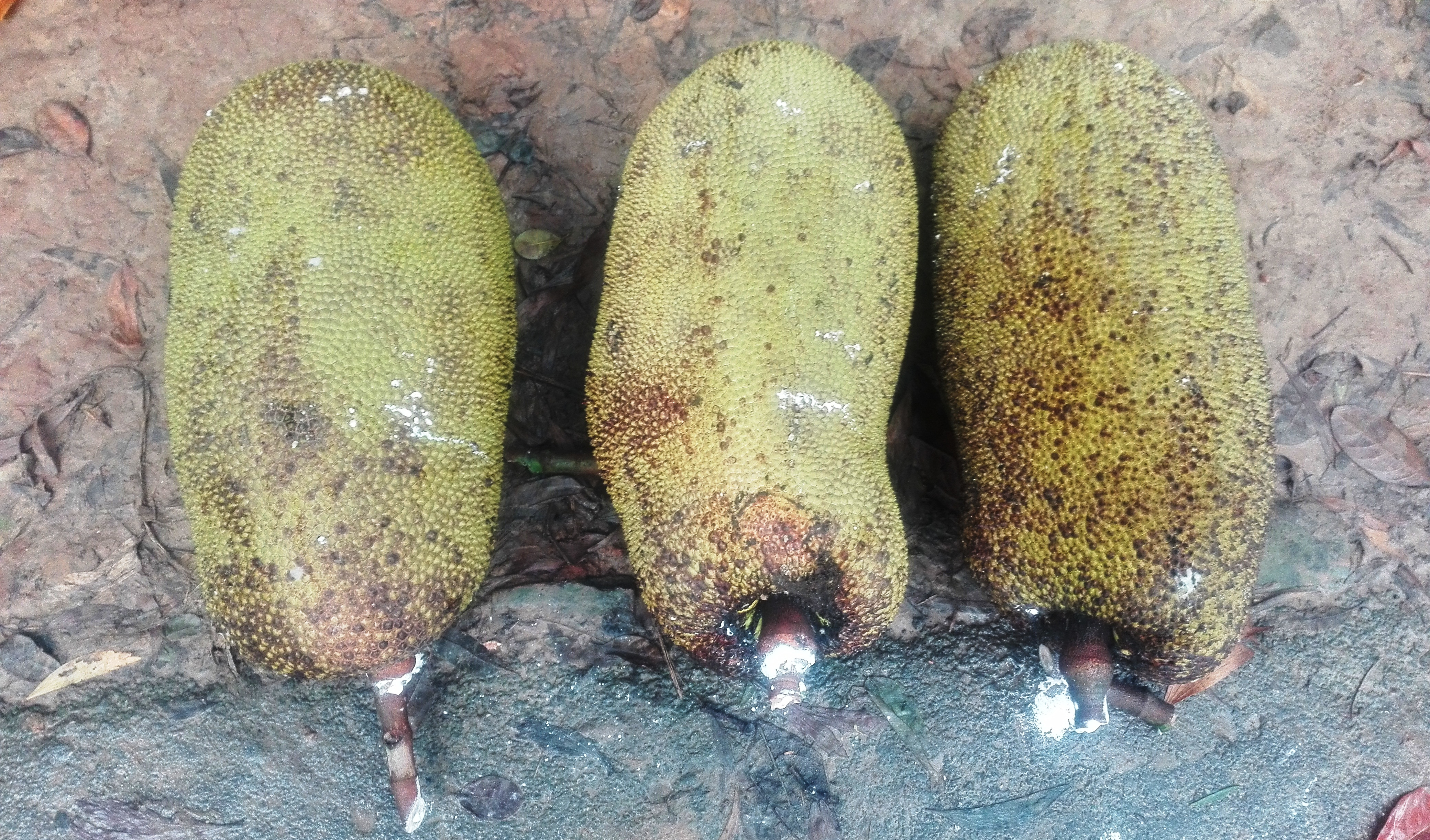 Three Jack fruit